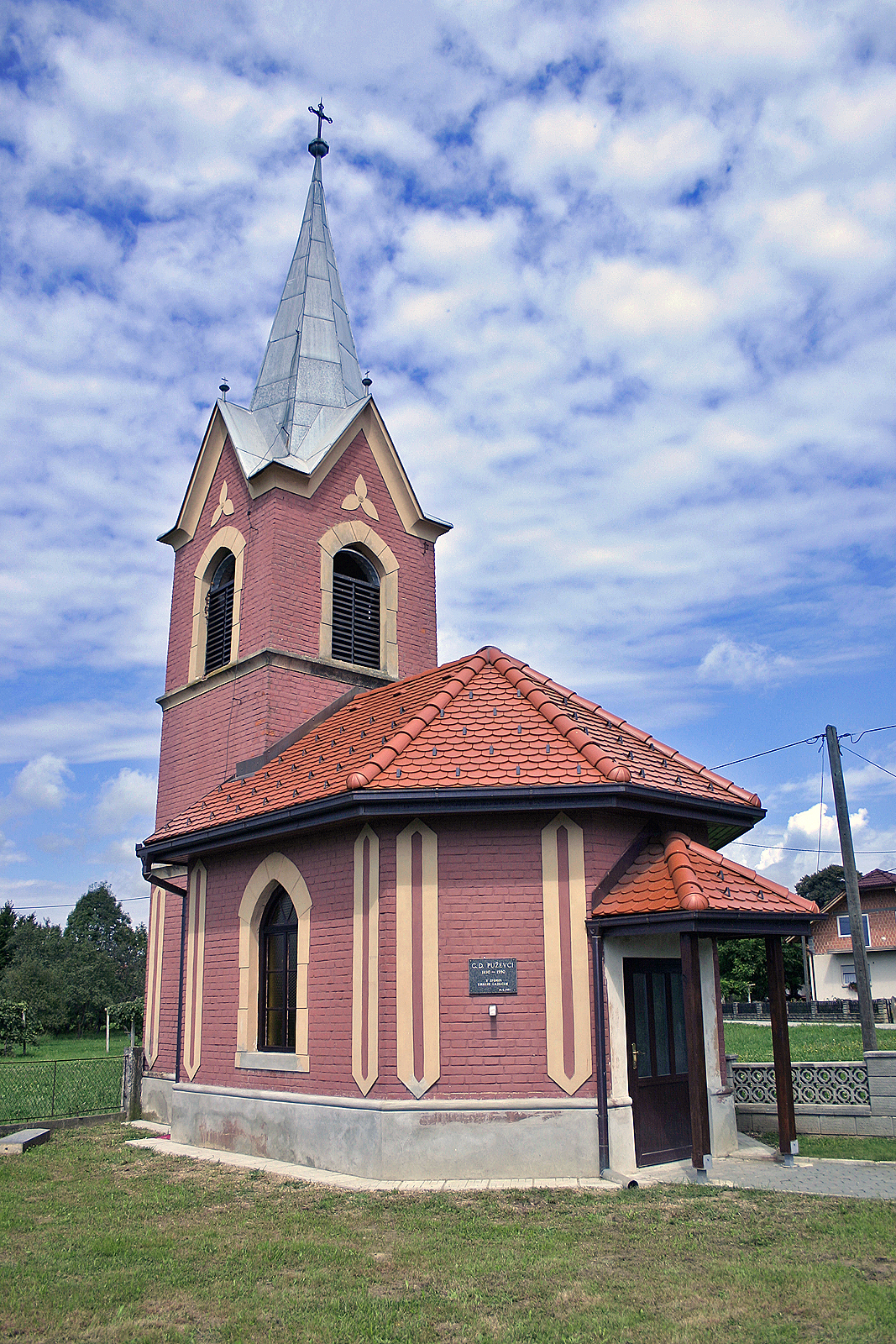 Chapel Puževci Slovenia